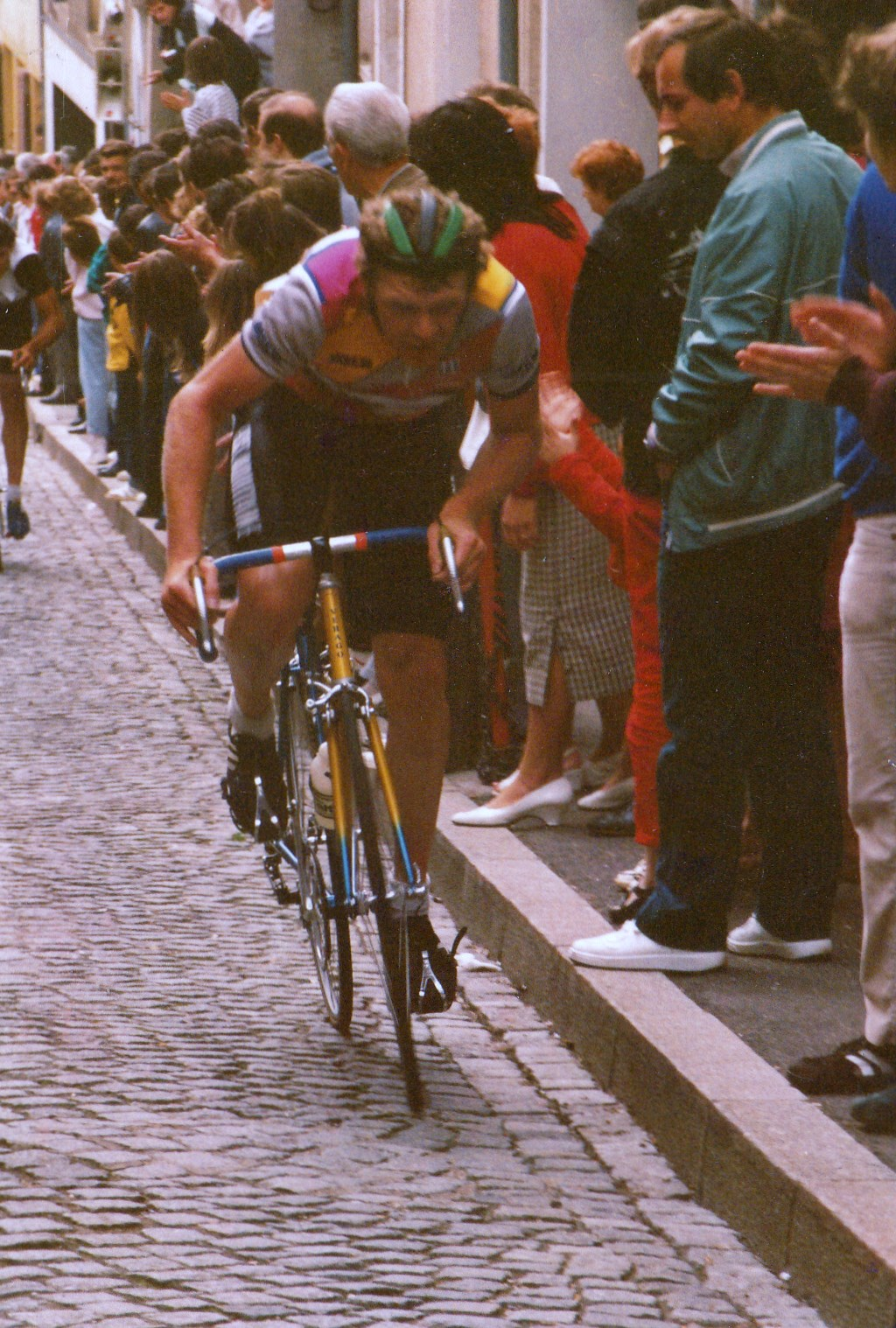 Jan Krawczyk, Polish National Cycling Team member. This photo is Krawczyk family archive photo.